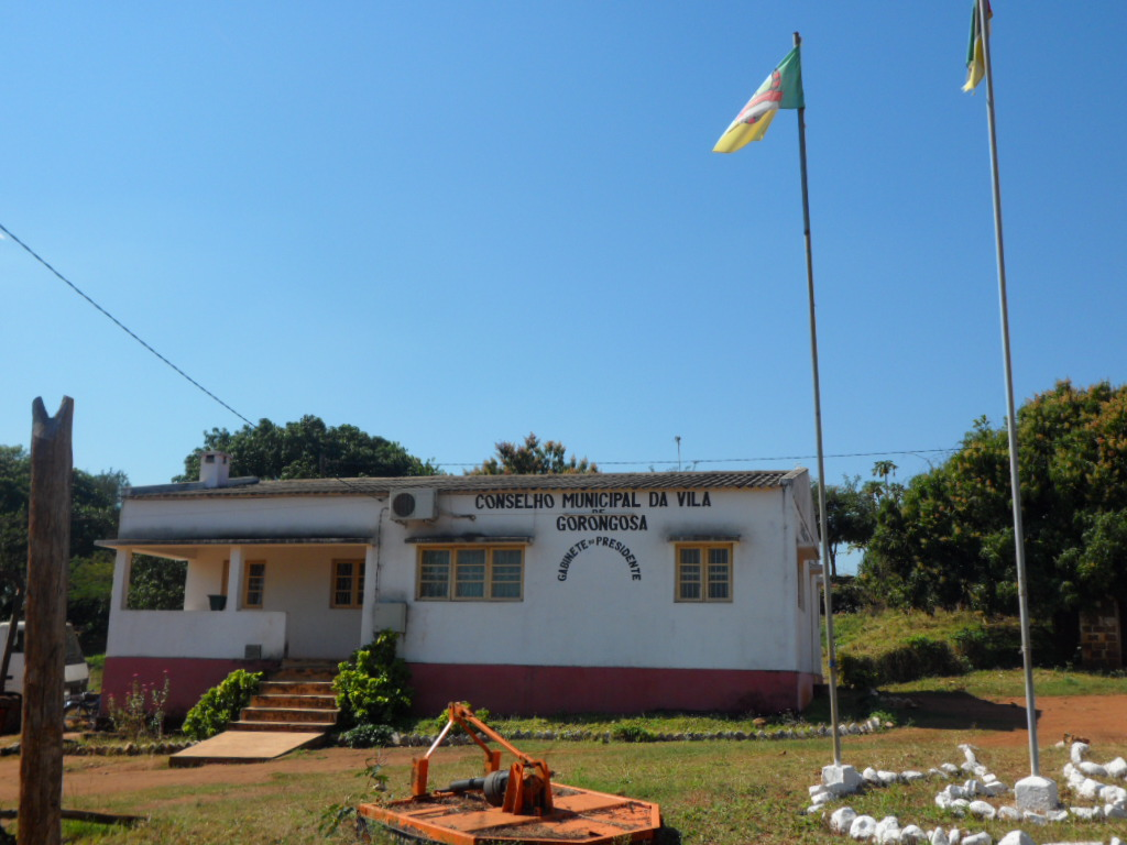 Municipal Council of Gorongosa, Mozambique